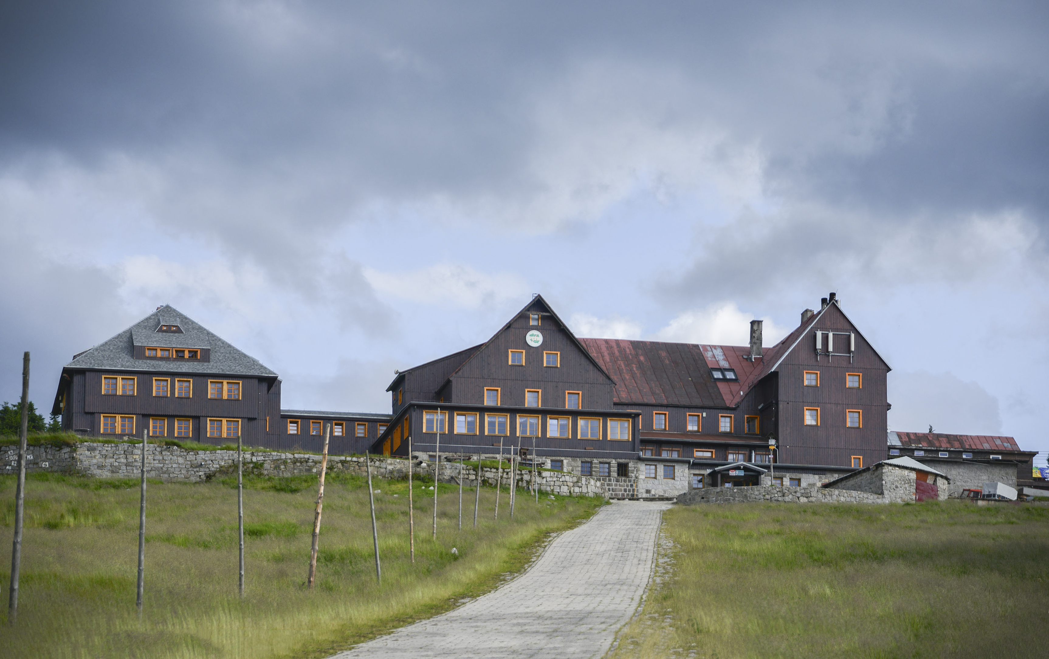 Summer approach to the Hala Szrenicka hostel from Kamieńczyk, mountain hostel "na Hali Szrenickiej"